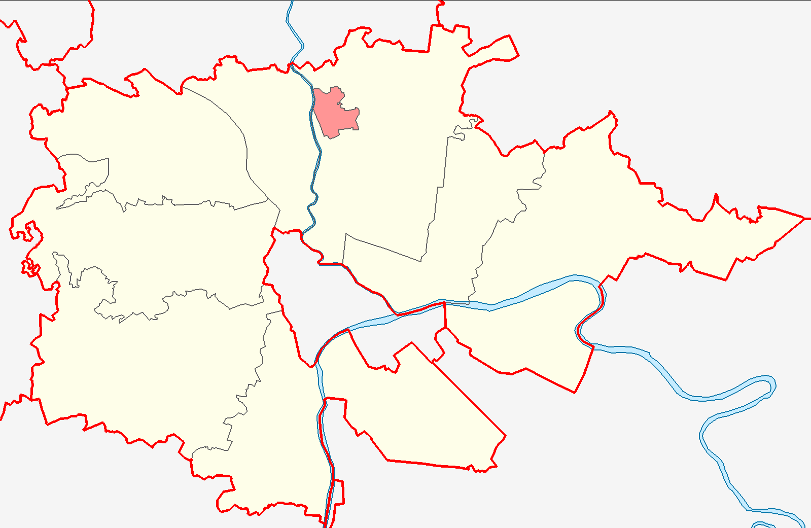 Russia Moscow oblast Kolomna district Peski urban poselenie position map